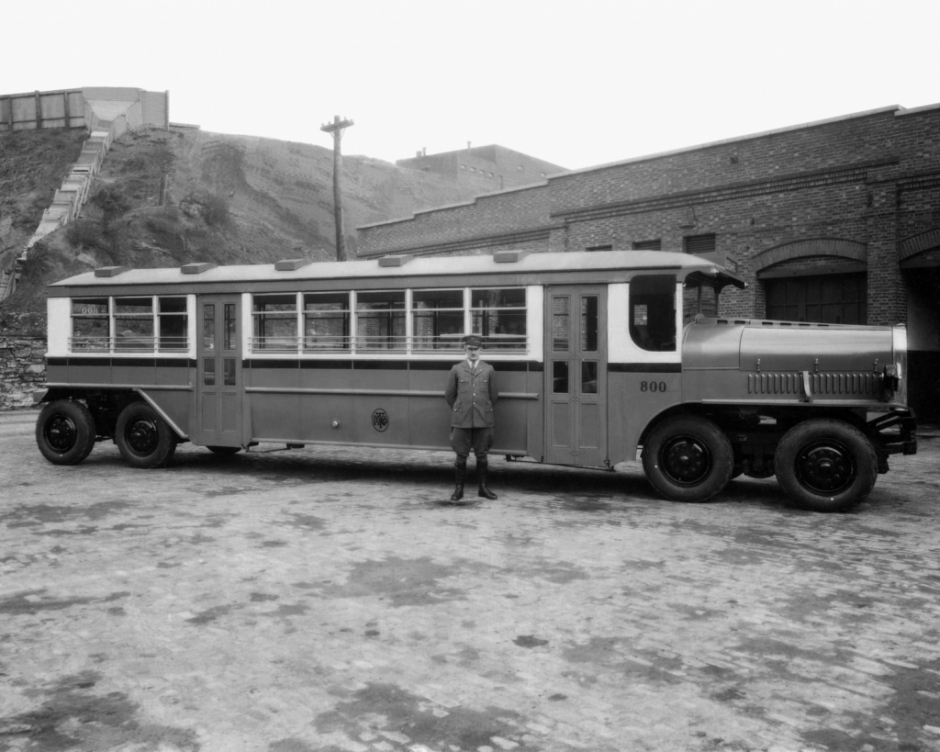 Gas-electric hybrid bus made by the Versare Company. Because of the distance between the axles, and the narrowness characteristic to most streets in that era, the driver was unable to turn corners easily—except on the Atwater Avenue route. In 1934, seven years after this photo was taken, the Atwater Avenue Monster broke in half.